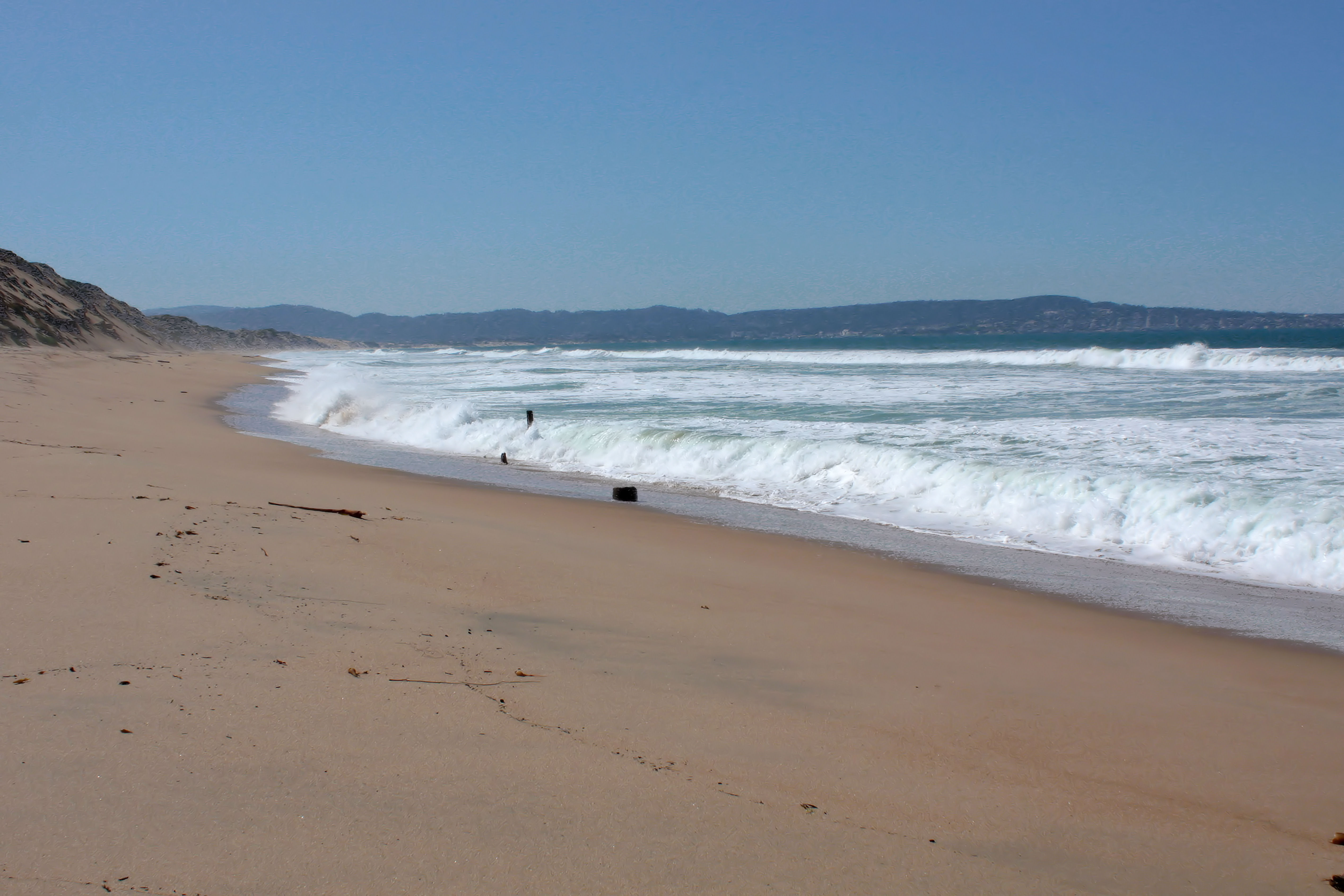 Indian Head Beach, Fort Ord Dunes State Park, California, USA